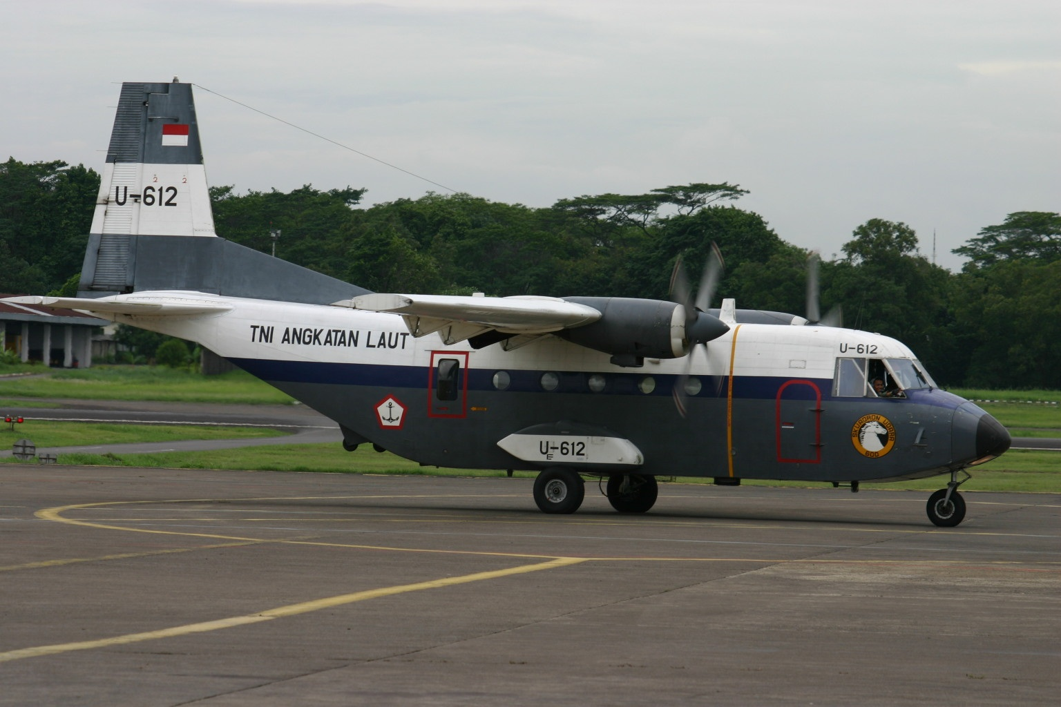 At Jakarta Halim